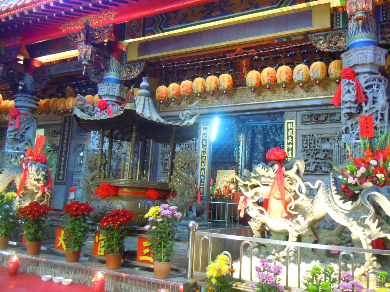 中文(繁體):陳平庄紫微宮：位於臺中市北屯區中清路二段568號。